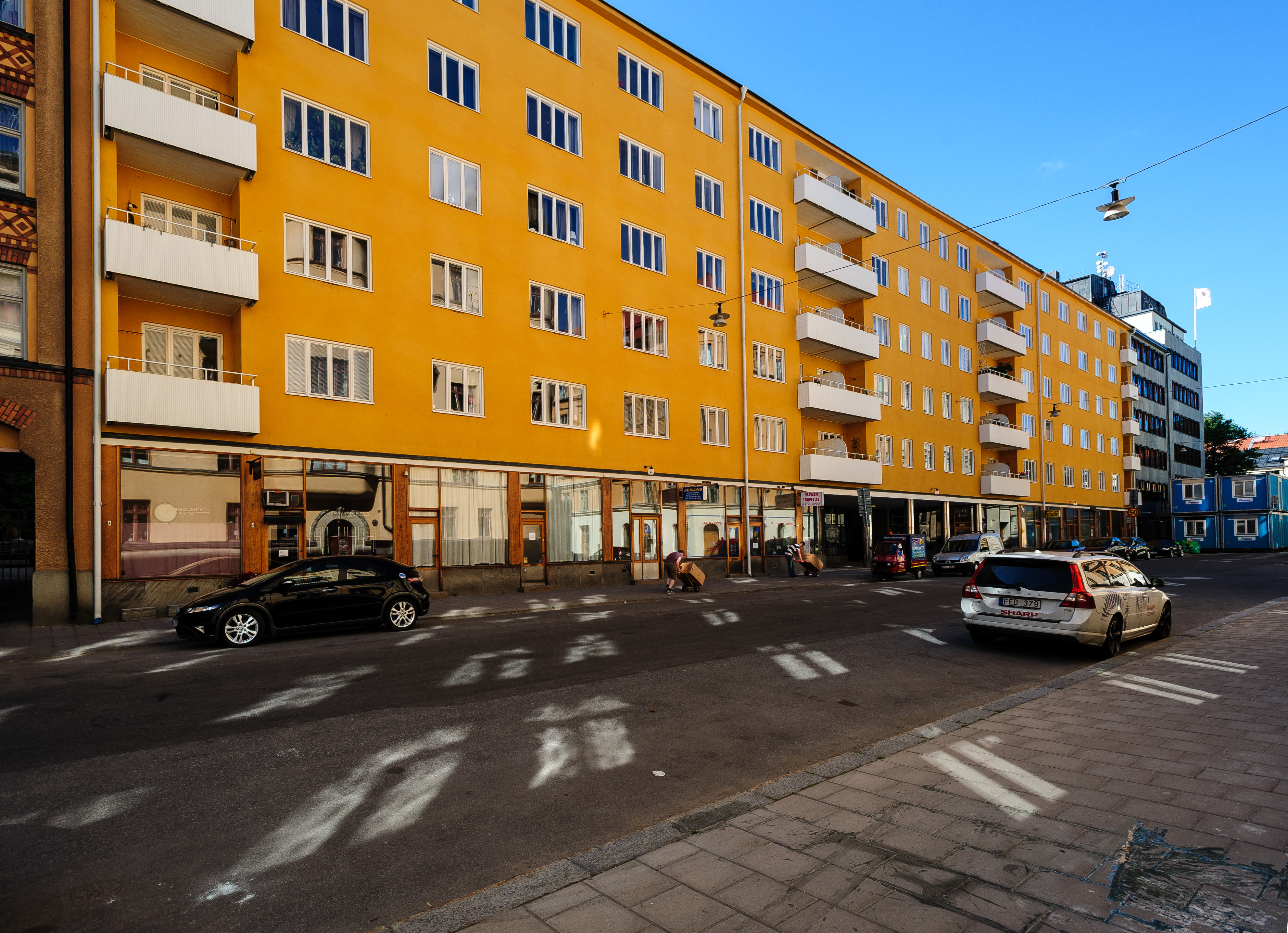 Functionalistic building. Wargentinsgatan 5. Architect Sven Wallander